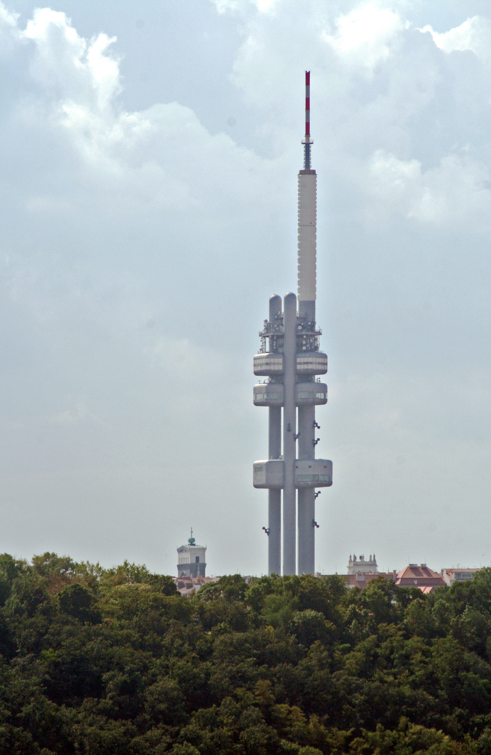 Prague TV tower in Žižkov from the top of Lighthouse Vltava Waterfront Towers, Czech Republic